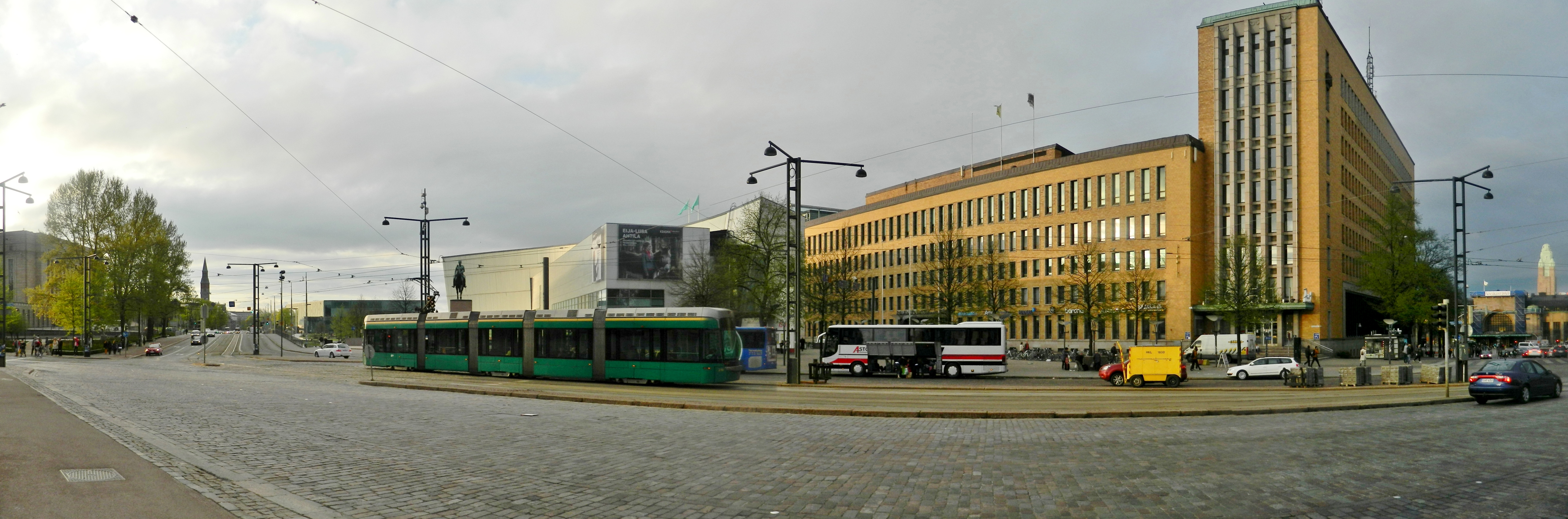 Helsinki main post office and Sokos department store